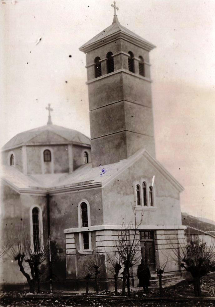 Church in the village Pirava (Valandovo), 1931 This media file is produced by Wikipedian in Residence in Category:Wikipedian in Residence at DARM in 2016.